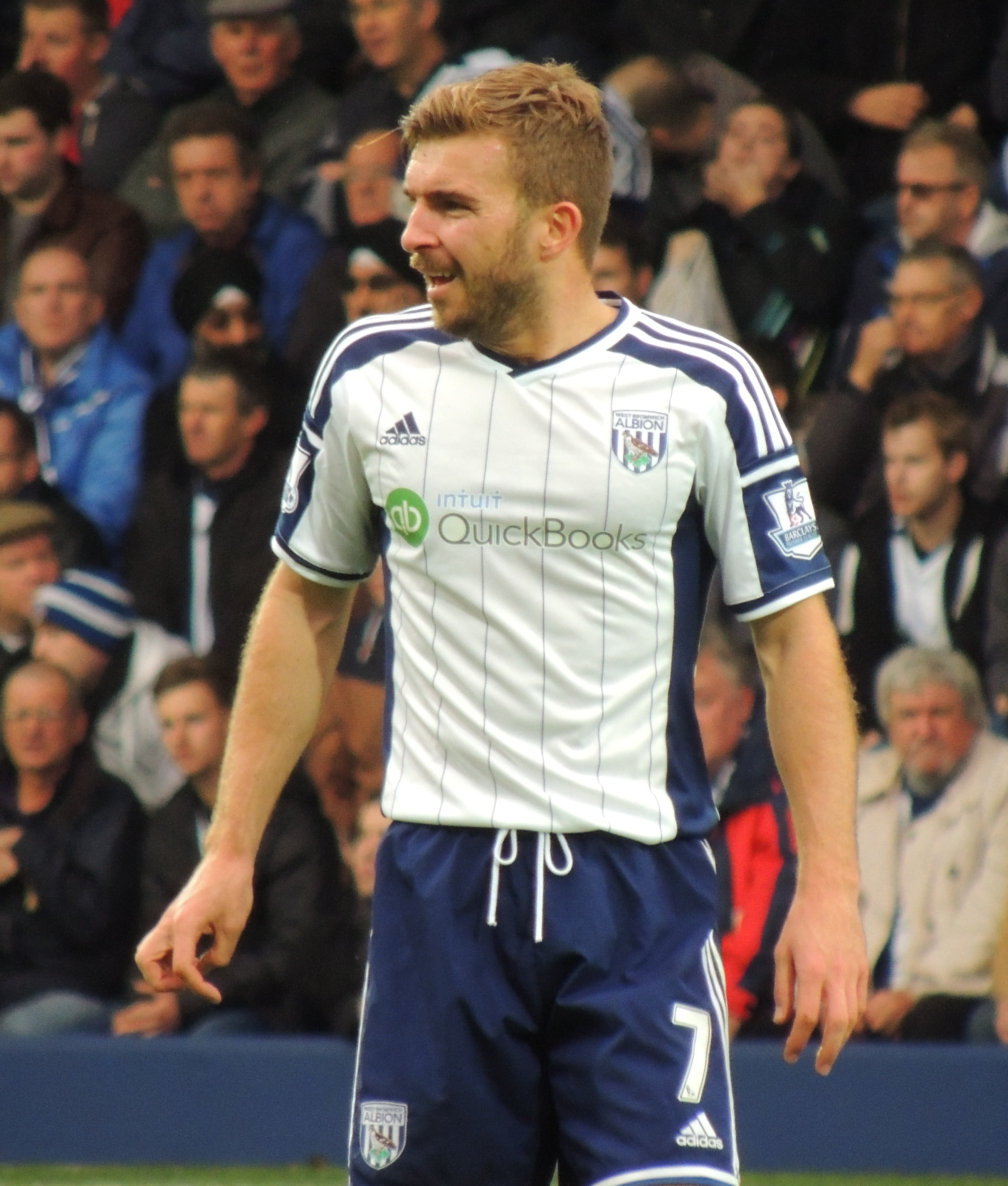 James Morrison playing for West Bromwich Albion in 2014.